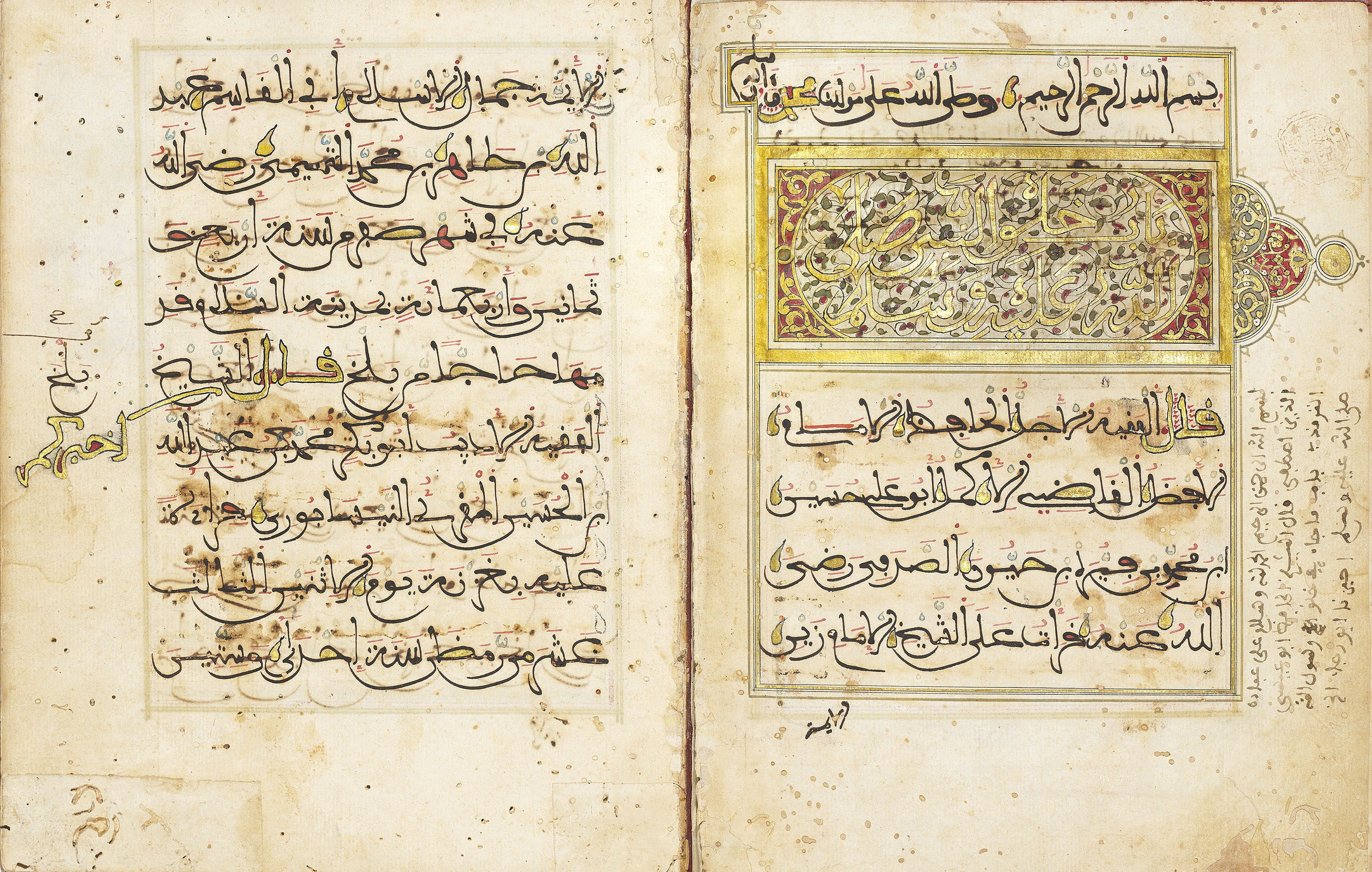 Shama'il Muhammadiyah copied by ABU AL-QASIM BIN MUHAMMAD BIN AHMAD BIN YUSUF AL-FASI FIRST OF RABI' AL-THANI AH 11[1or 2]3 (SEPTEMBER-OCTOBER 1701 OR MAY-JUNE 1711 AD) copied in Fes west of the Zawiya of Abd al-Qader al-Fasi illuminated manuscript